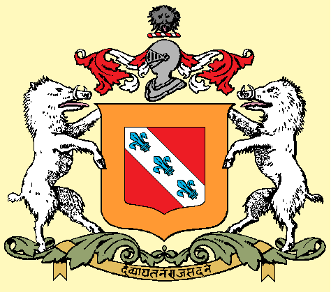 SitamauState Coat of Arms This work is in the public domain in India because its term of copyright has expired. The Indian Copyright Act applies in India, to works first published in India. According to The Indian Copyright Act, 1957 (Chapter V Section 25), Anonymous works, photographs, cinematographic works, sound recordings, government works, and works of corporate authorship or of international organizations enter the public domain 60 years after the date on which they were first published, counted from the beginning of the following calendar year (ie. as of 2016, works published prior to 1 January 1956 are considered public domain). Posthumous works (other than those above) enter the public domain after 60 years from publication date. Any other kind of work enters the public domain 60 years after the author's death. Text of laws, judicial opinions, and other government reports are free from copyright. Photographs created before 1958 are in the public domain 50 years after creation, as per the Copyright Act 1911. This file may not be in the public domain outside India. The creator and year of publication are essential information and must be provided. See Wikipedia:Public domain and Wikipedia:Copyrights for more details. This image shows a flag, a coat of arms, a seal or some other official insignia. The use of such symbols is restricted in many countries. These restrictions are independent of the copyright status.